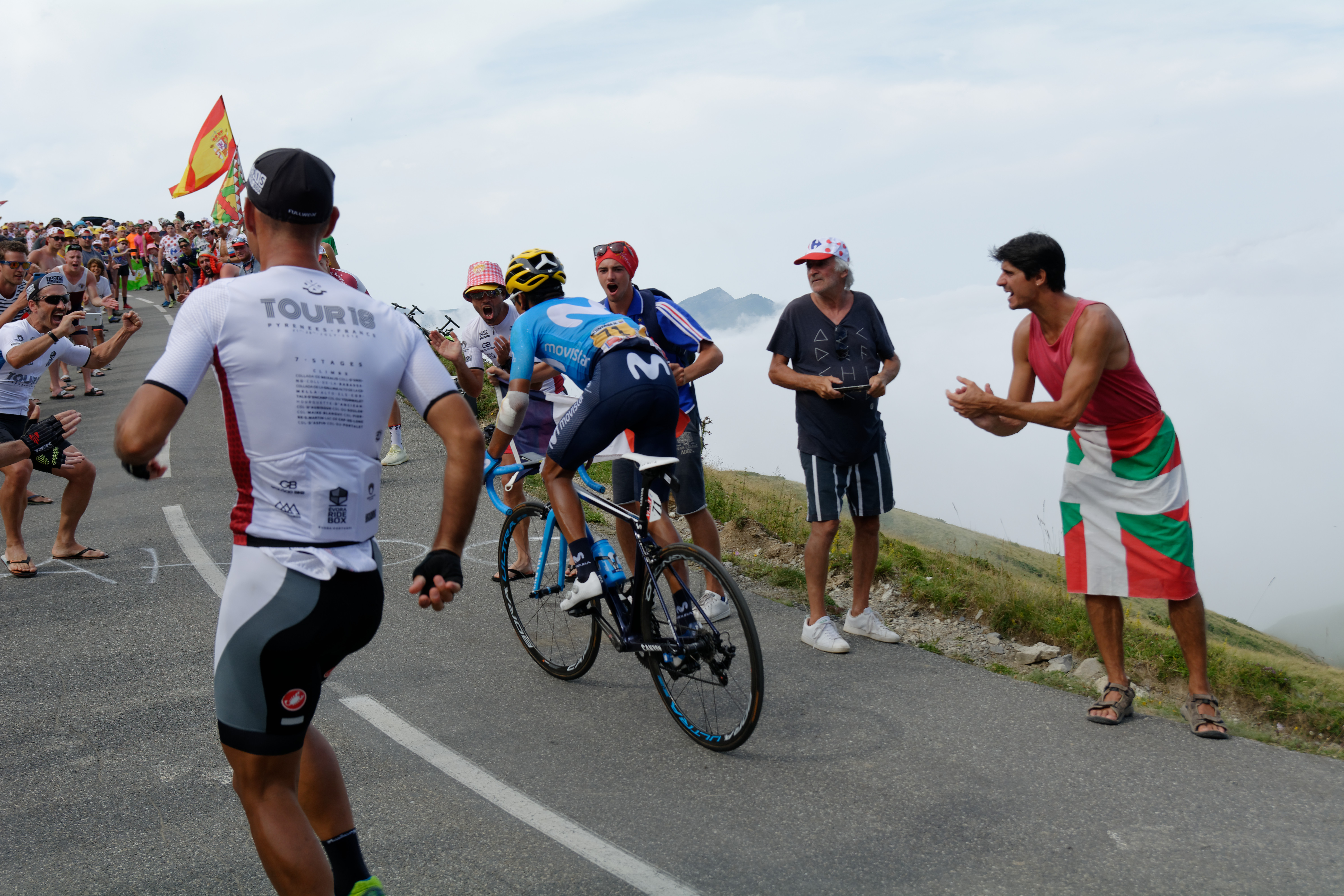 2018 Tour de France